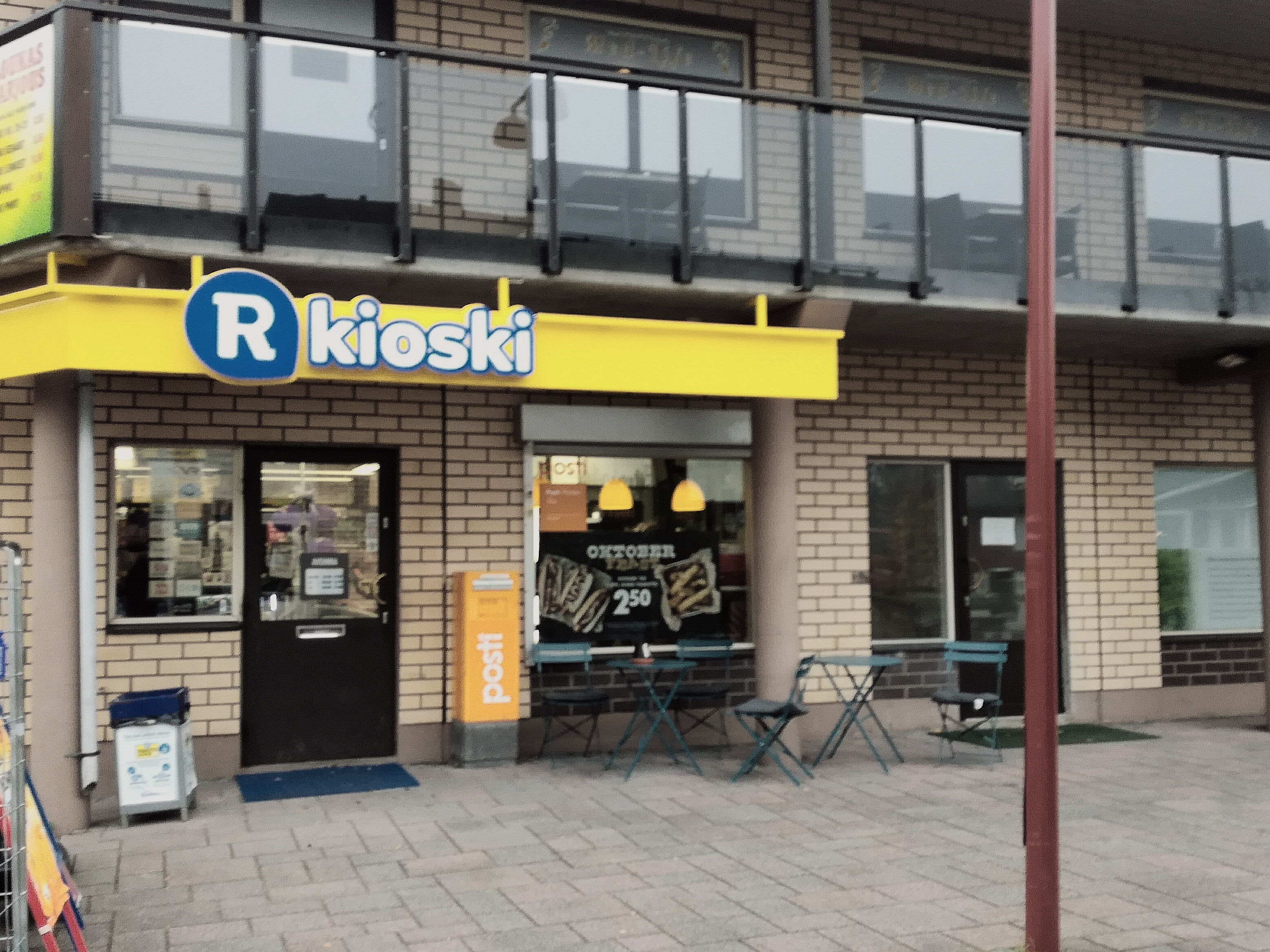 R-kioski shop in Veikkola Kirkkonummi